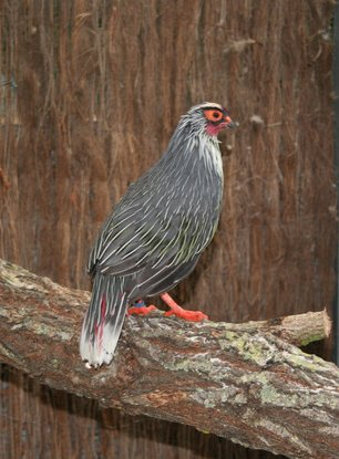 blood pheasnant